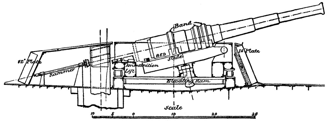 Right elevation of Elswick BL 16.25 inch 110 ton naval gun in loading position on barbette mounting for British battleship HMS Benbow